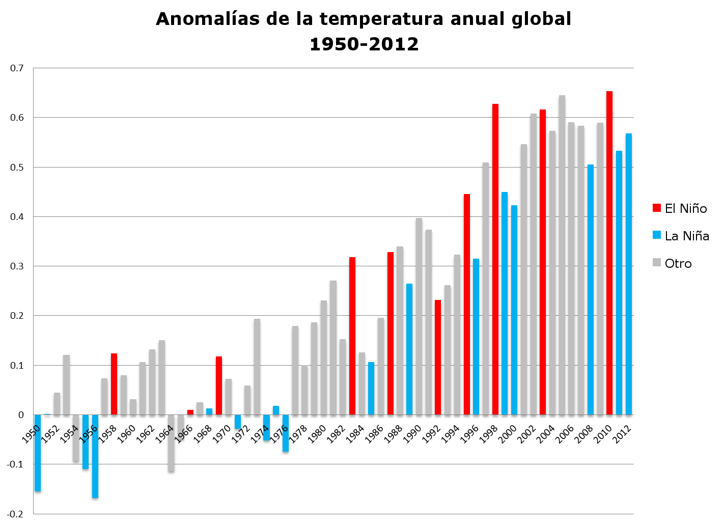 NOAA Global Annual Temperature Anomalies 1950–2012 from State of the Climate: Global Analysis : Annual 2012 Version in Spanish